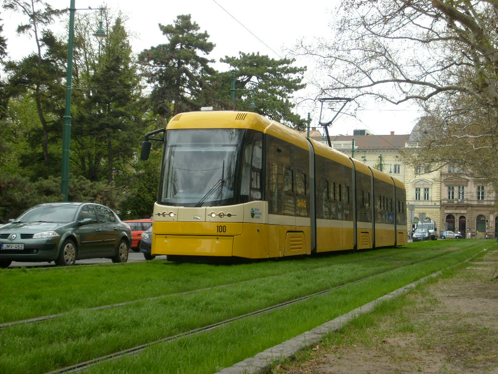 PESA 120Nb type tram